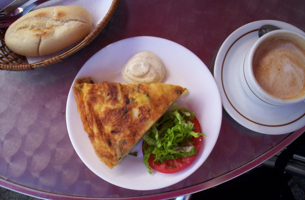 Tortilla canaria, an omelet filled with sautéed tomatoes, onions and garlic, seasoned with tarragon, parsley, salt and sometimes basil.